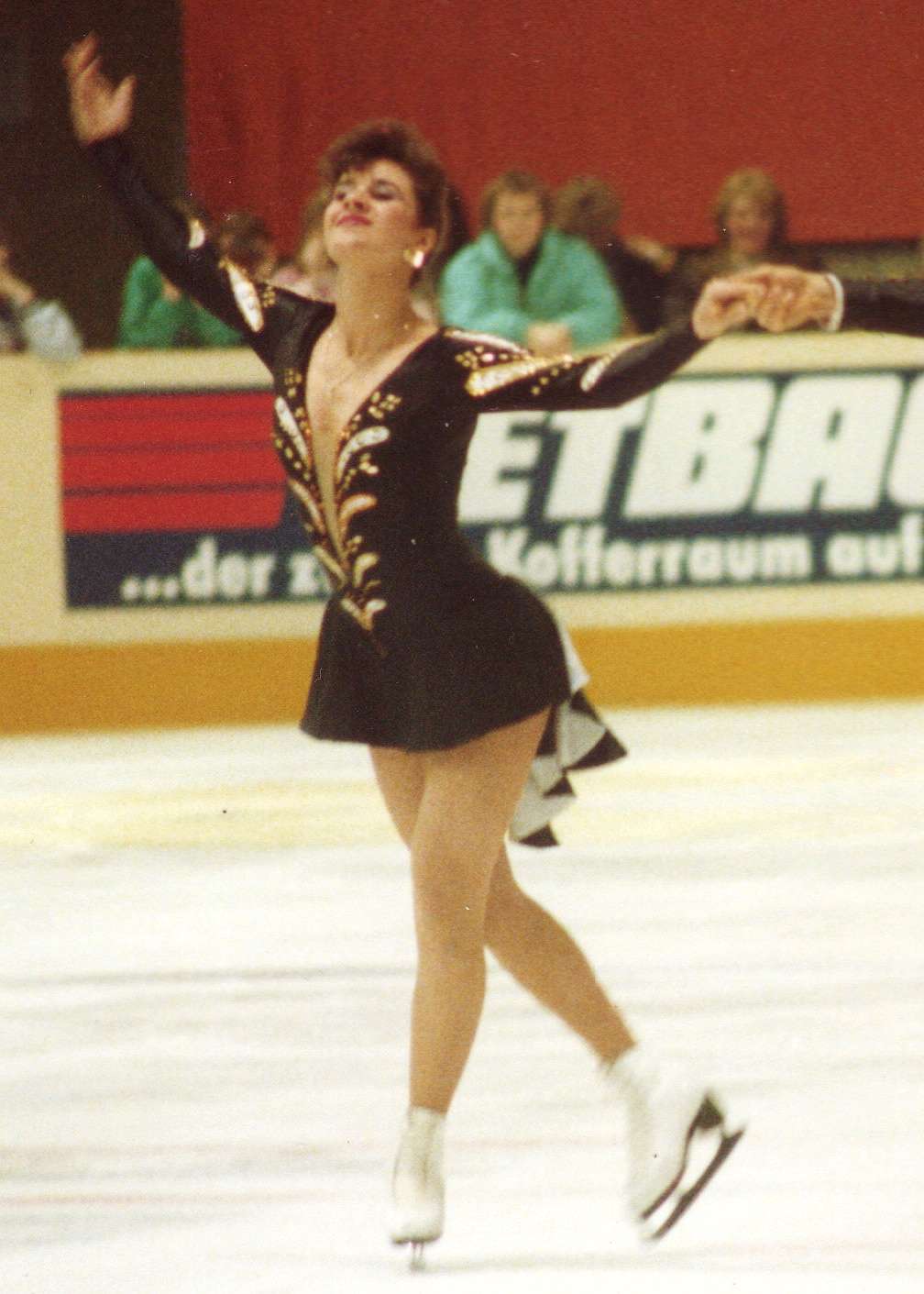 Isabelle and Paul Duchesnay at the ISU-exhibition in West-Berlin 1989